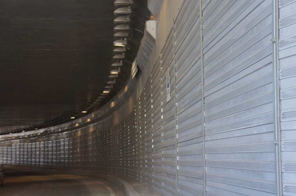 Automobile tunnel under Poštova Square